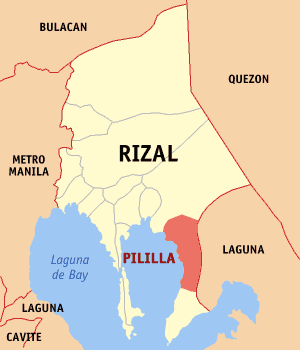 Locator map of Pililla in Rizal, Philippines.